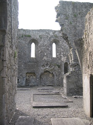 An original photograph taken by me in Athenry, Galway in 2003